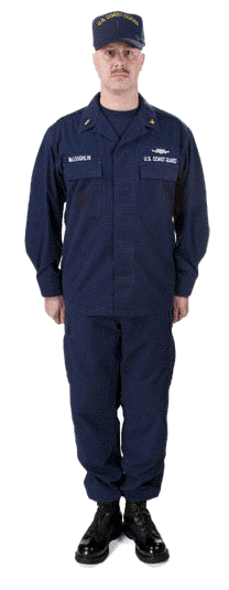 Image of an Untucked Operational Dress Uniform (ODU). This uniform is currently in use by the United States Coast Guard.